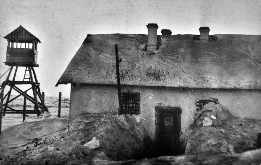 Source: Russian Federation State Archive, Moscow